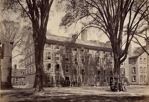 "South Middle College, now known as Connecticut Hall, on Old Campus in the Old Brick Row." View of Connecticut Hall, oldest building on the Yale campus and in New Haven, built between 1750 and 1753. Connecticut Hall was known as South Middle College from 1882 until 1905.